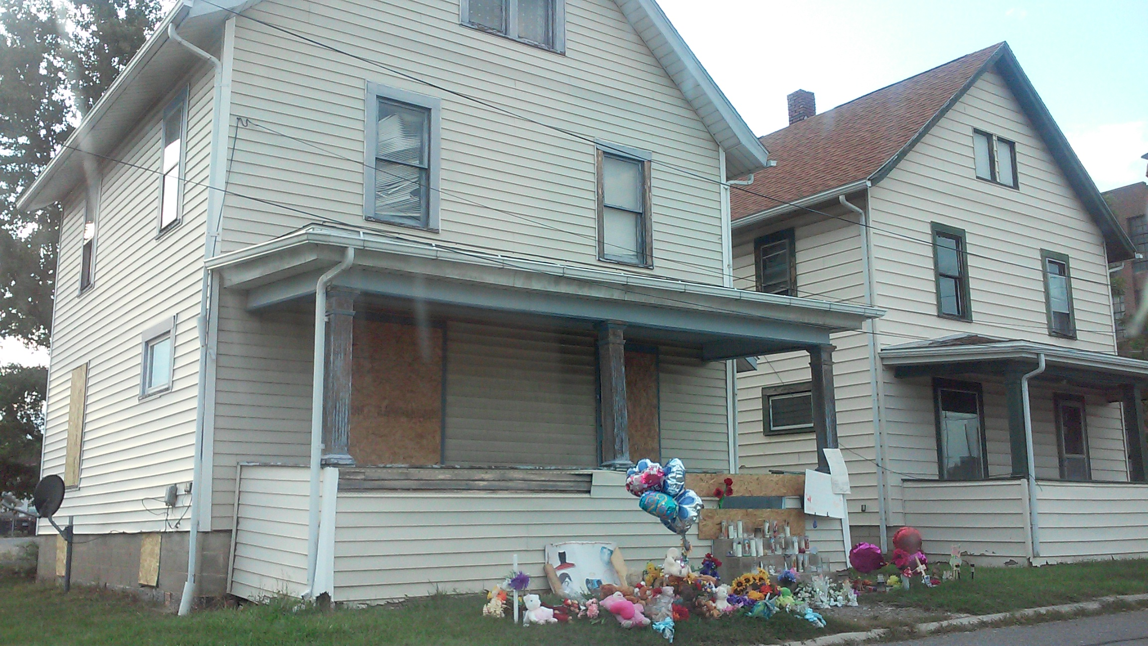 363 Covert Court in Ashland, Ohio. This is where police arrested Shawn Grate, rescued a woman he had abducted, and found two dead bodies. An impromptu community memorial to the victims can be seen in front of the house.